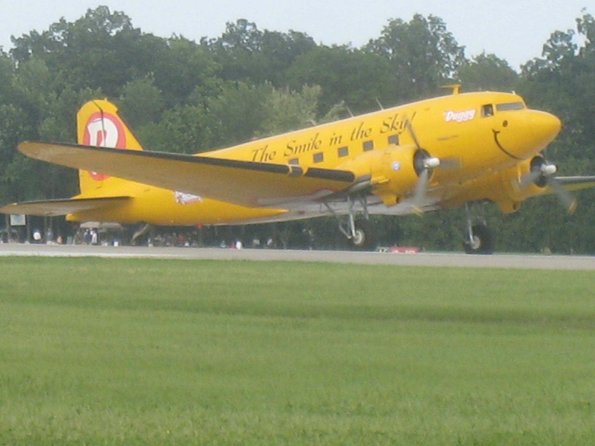 Duggy DC-3